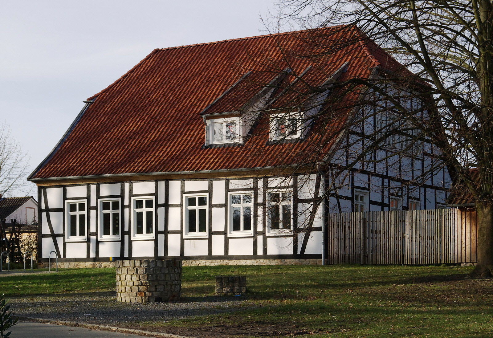 Timber framed house in town of Kirchlengern, District of Herford, North Rhine-Westphalia, Germany. This is a photograph of an architectural monument.